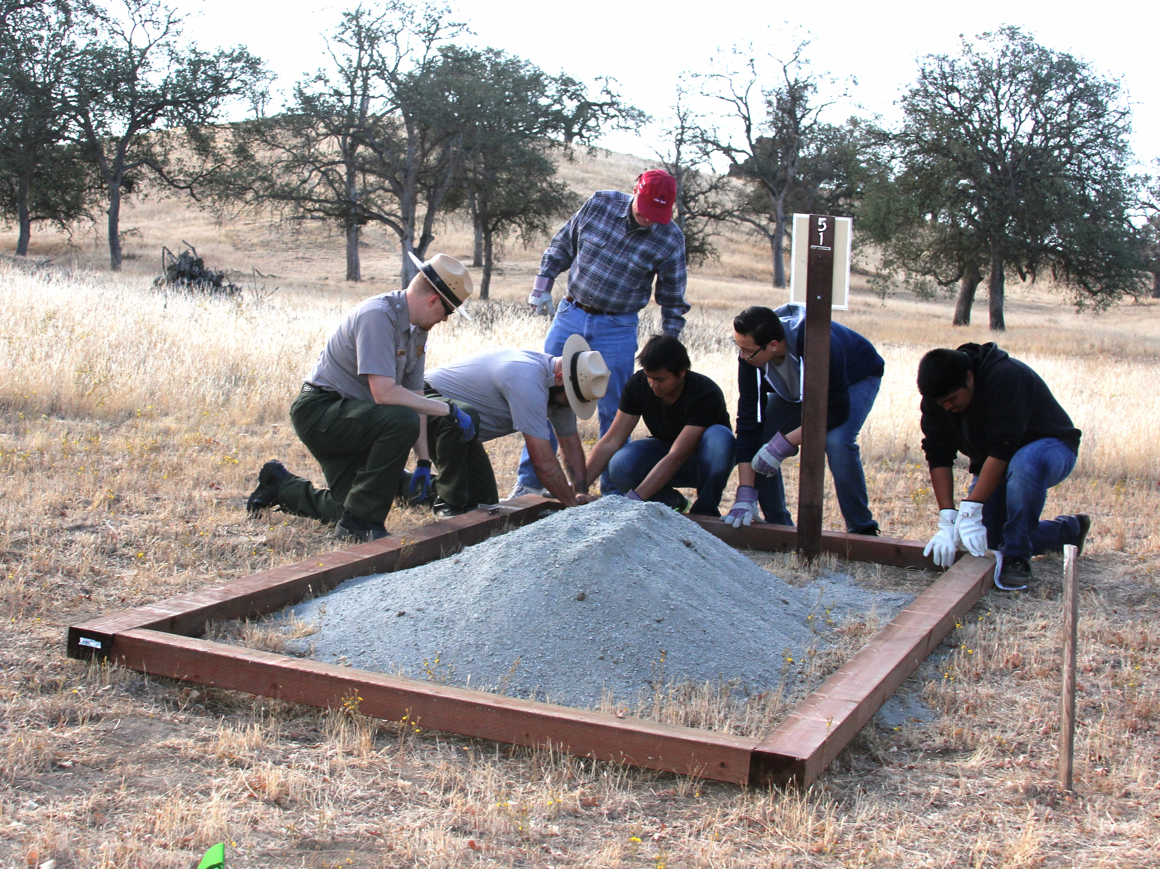 Volunteers work with park rangers to build a tee box for the disc golf course at Hensley Lake near Raymond, California, for National Public Lands Day Sept. 27, 2014. Over 60 people came out to help the park staff with projects like planting trees, removing litter and clearing trails. More than 2,000 sites participated in National Public Lands Day across the country this year during the 21st annual event. Photo cropped for emphasis. (U.S. Army /Released)